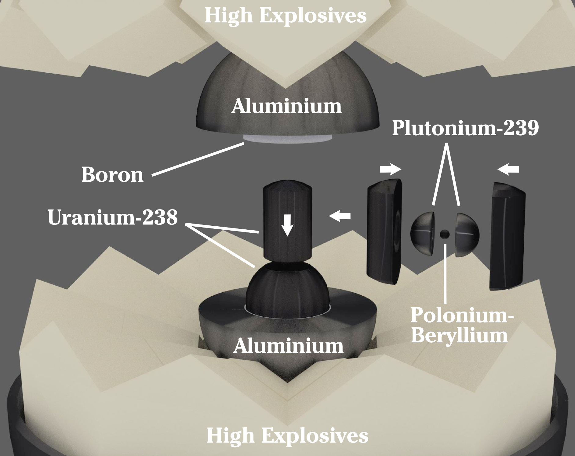 3-D computer drawing of the major nuclear components of Fat Man, the nuclear bomb dropped on Nagasaki. Contents of this diagram have the same source as the diagram.